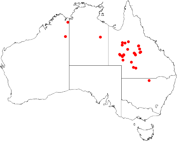 Sida spenceriana occurrence data from Australasian Virtual Herbarium downloaded 2 September 2019 using